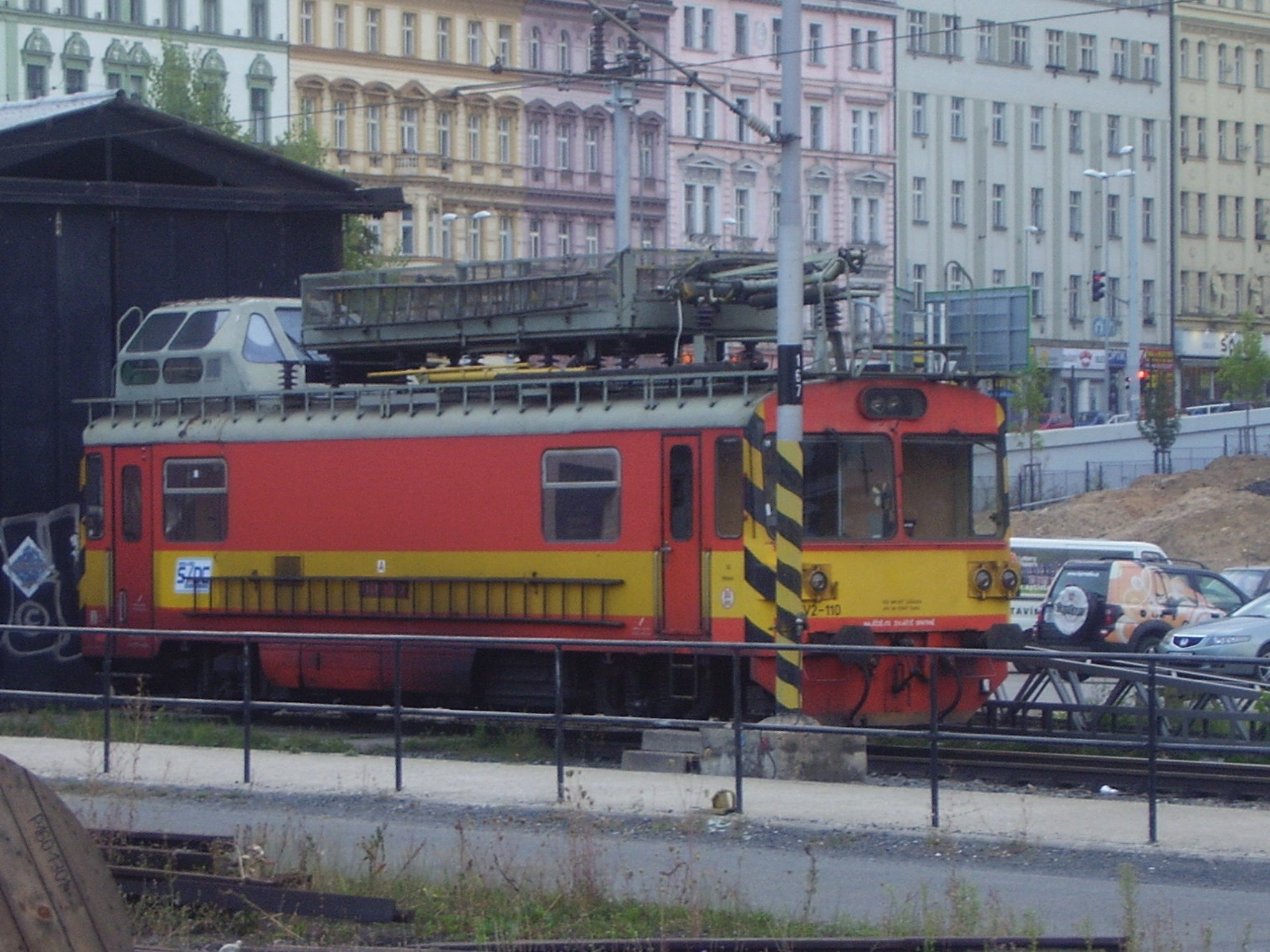 Servise rail car 892 at Prague main st.